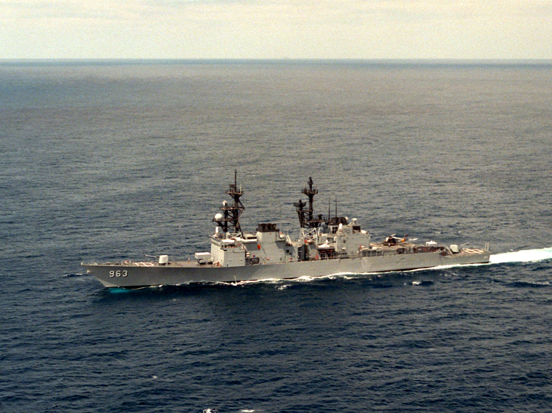 The U.S. Navy destroyer USS Spruance (DD-963) underway on 20 November 1986.